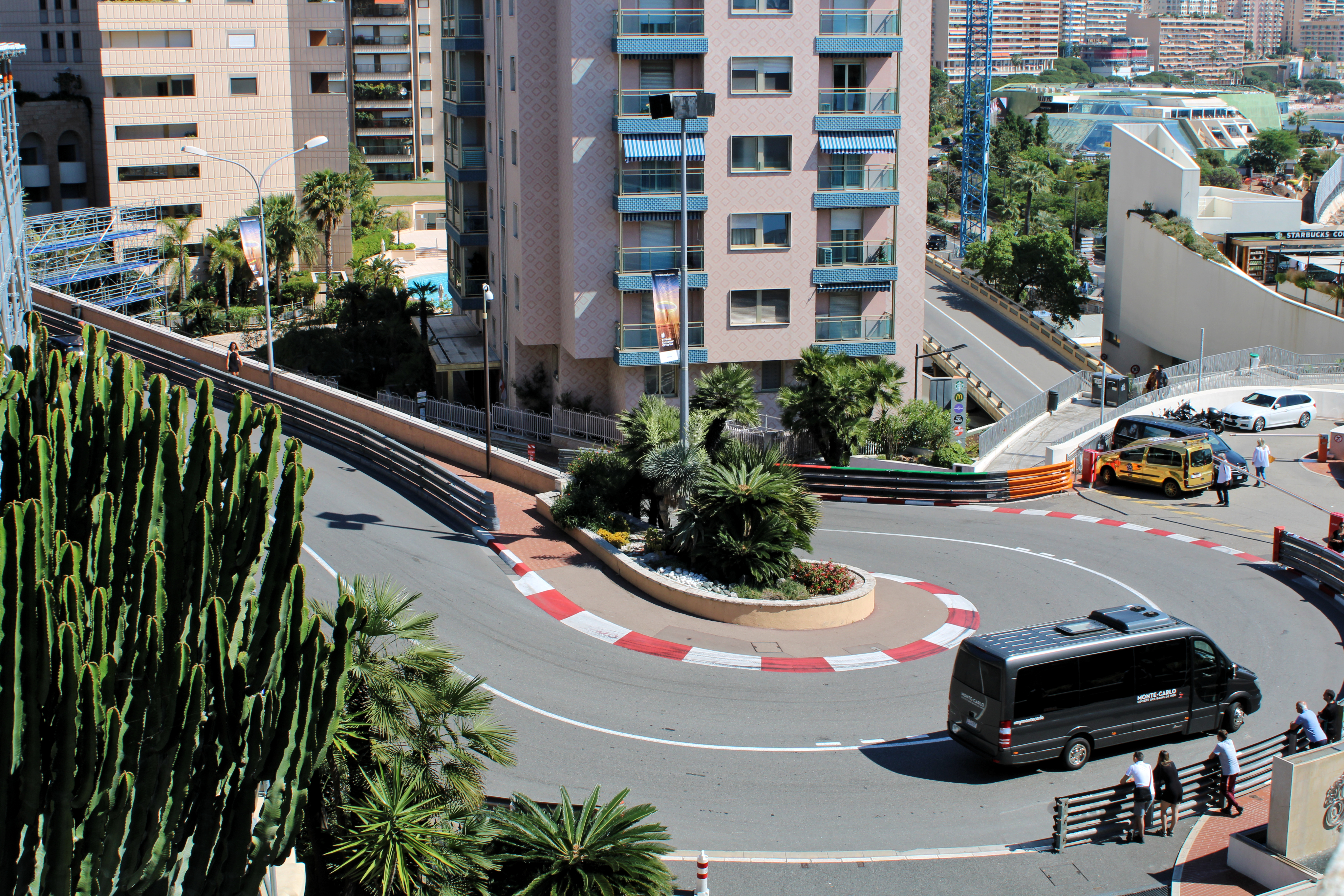 Fairmont Hairpin in Monaco